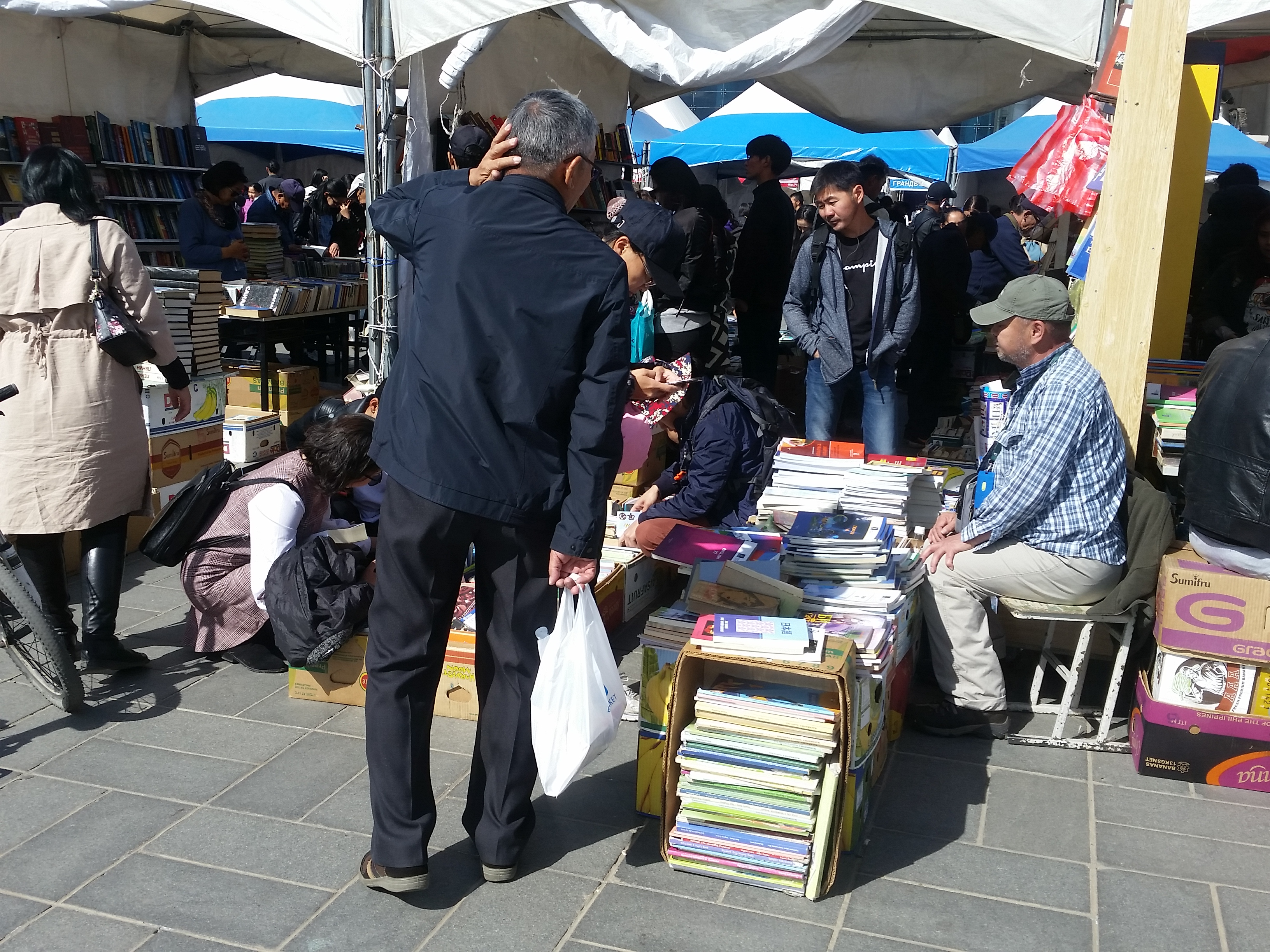 Ulaanbaatar book fair 2019 - 6a